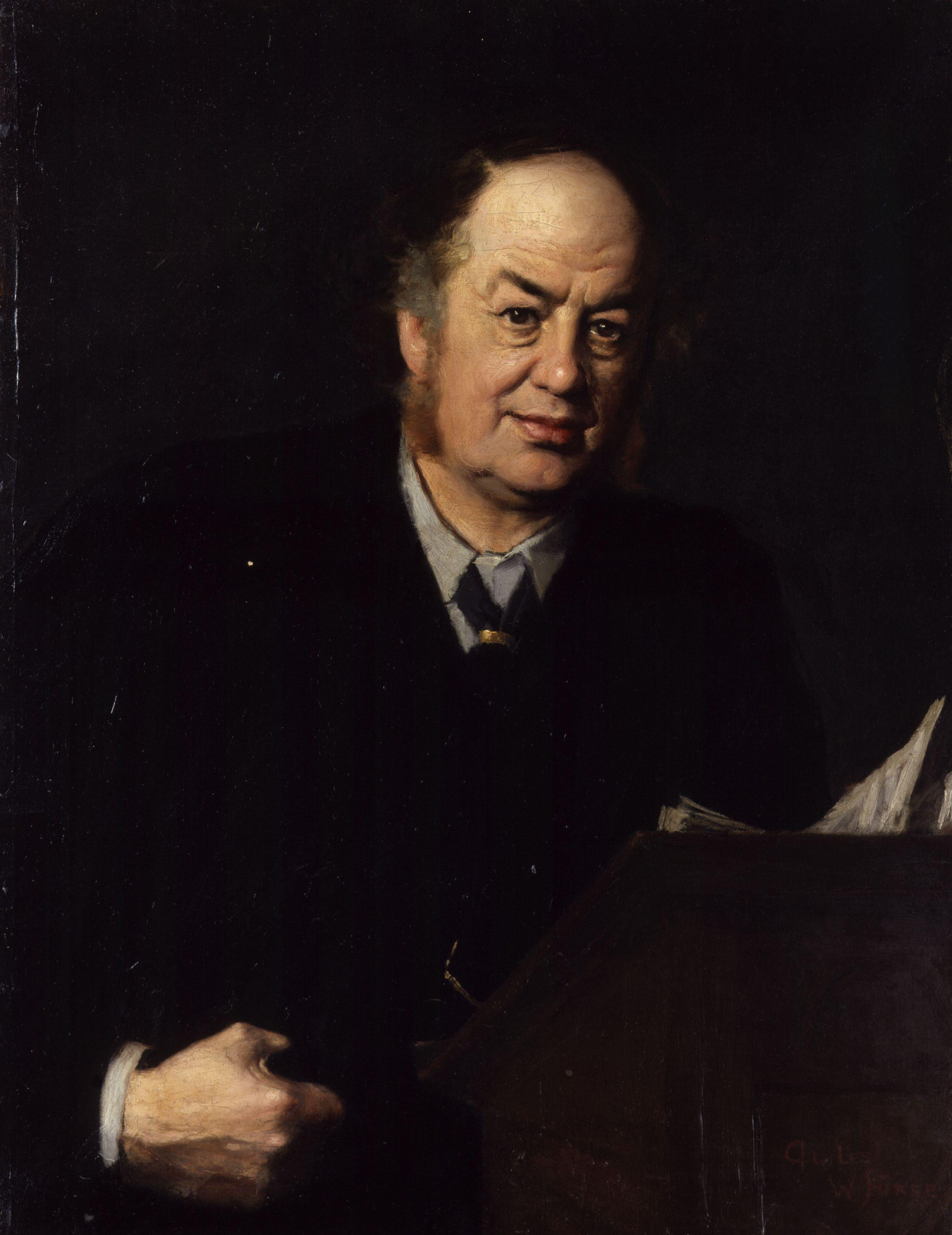 Henry Jackson, by Charles Wellington Furse (died 1904), given to the National Portrait Gallery, London in 1975. All images in this batch have been confirmed as author died before 1939 according to the official death date listed by the NPG.